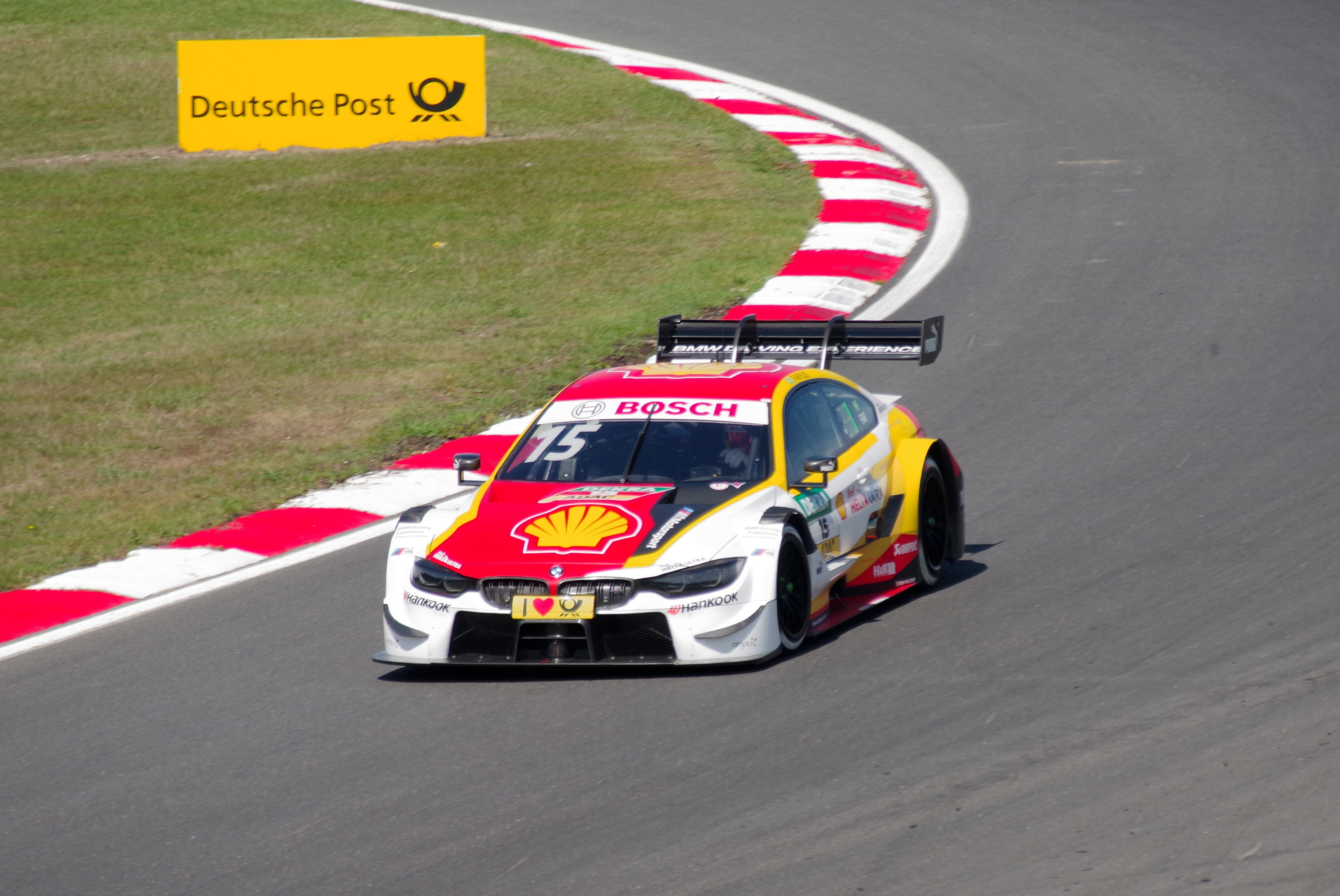 2018 Deutsche Tourenwagen Masters, Brands Hatch.